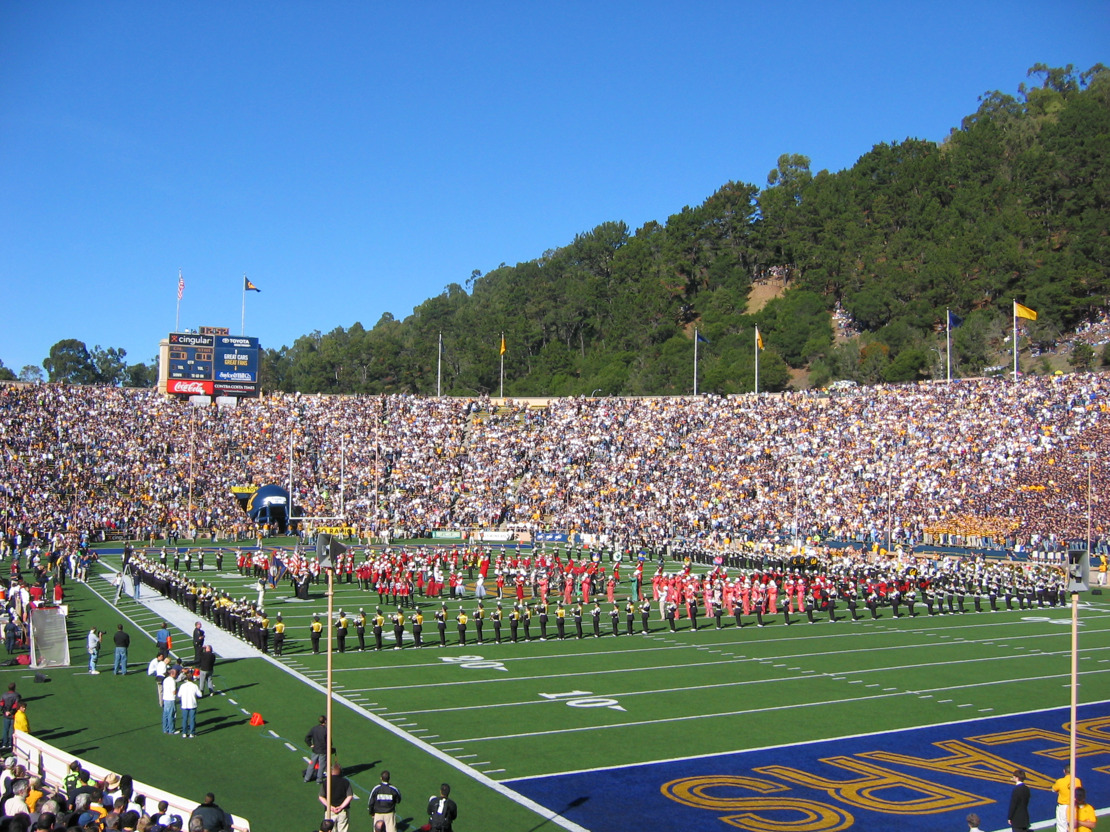 Photo taken by Poppy in November 2004. Big Game 2004 (Cal-Stanford) : Cal and Stanford Bands